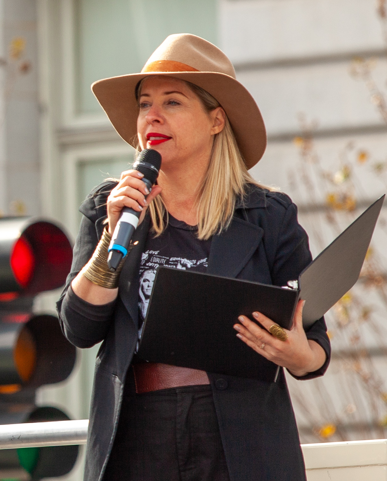 Tiffany Shlain speaks at the 2020 San Francisco Women's March.